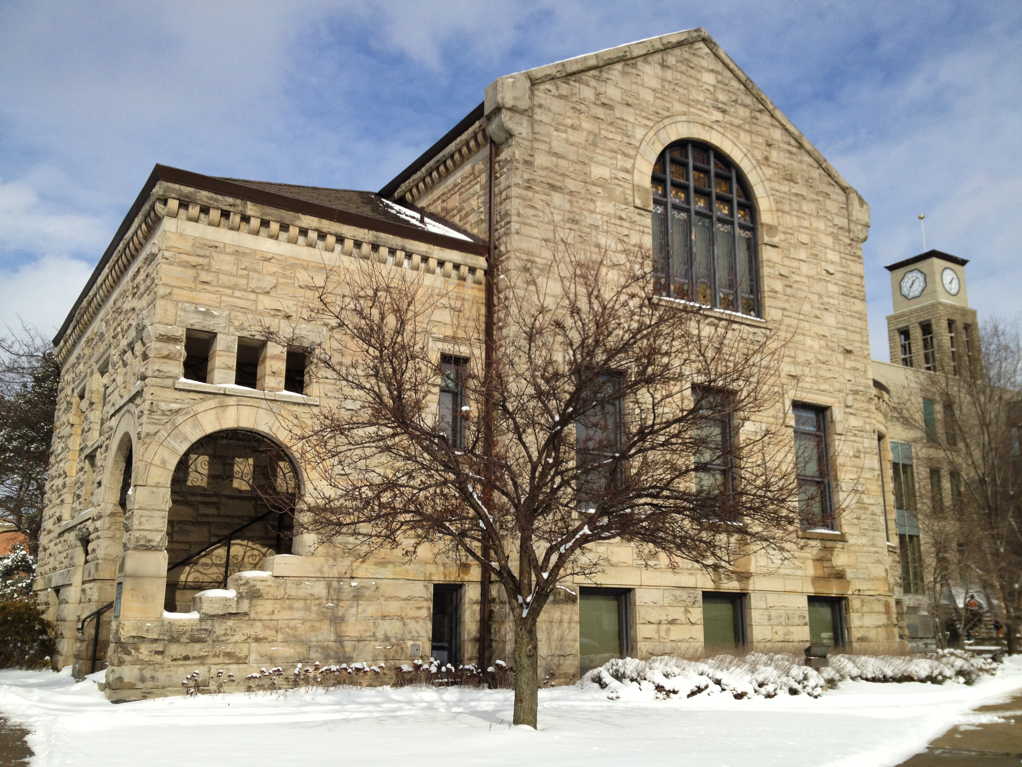 Baldwin Library part of the Malicky Center on Baldwin Wallace University North Campus